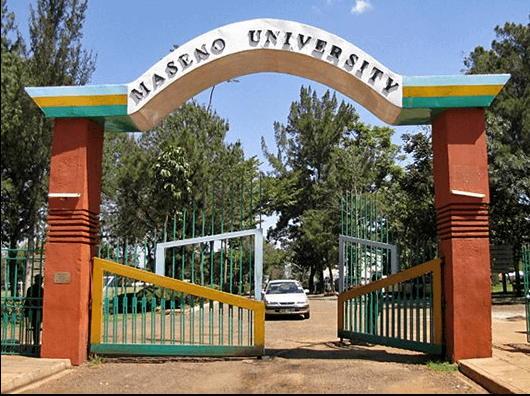 Maseno University Front Gate